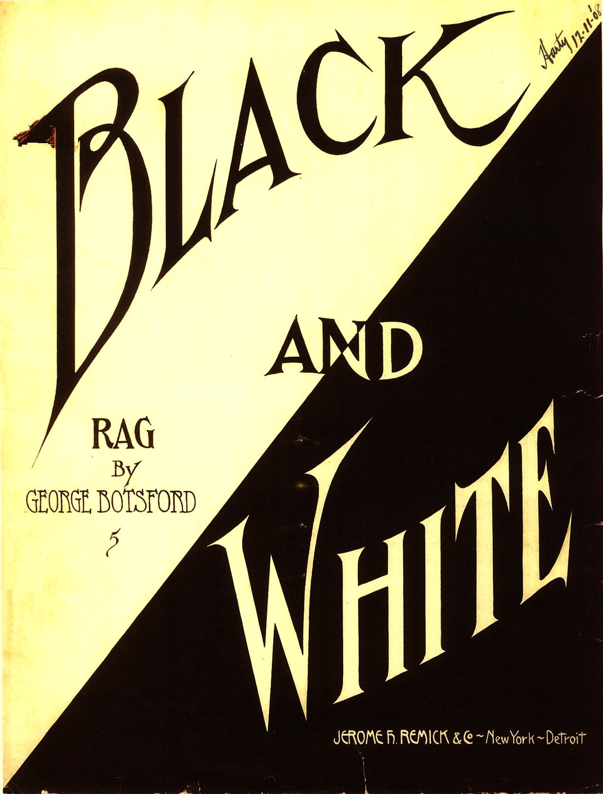 Black and White Rag, 1908